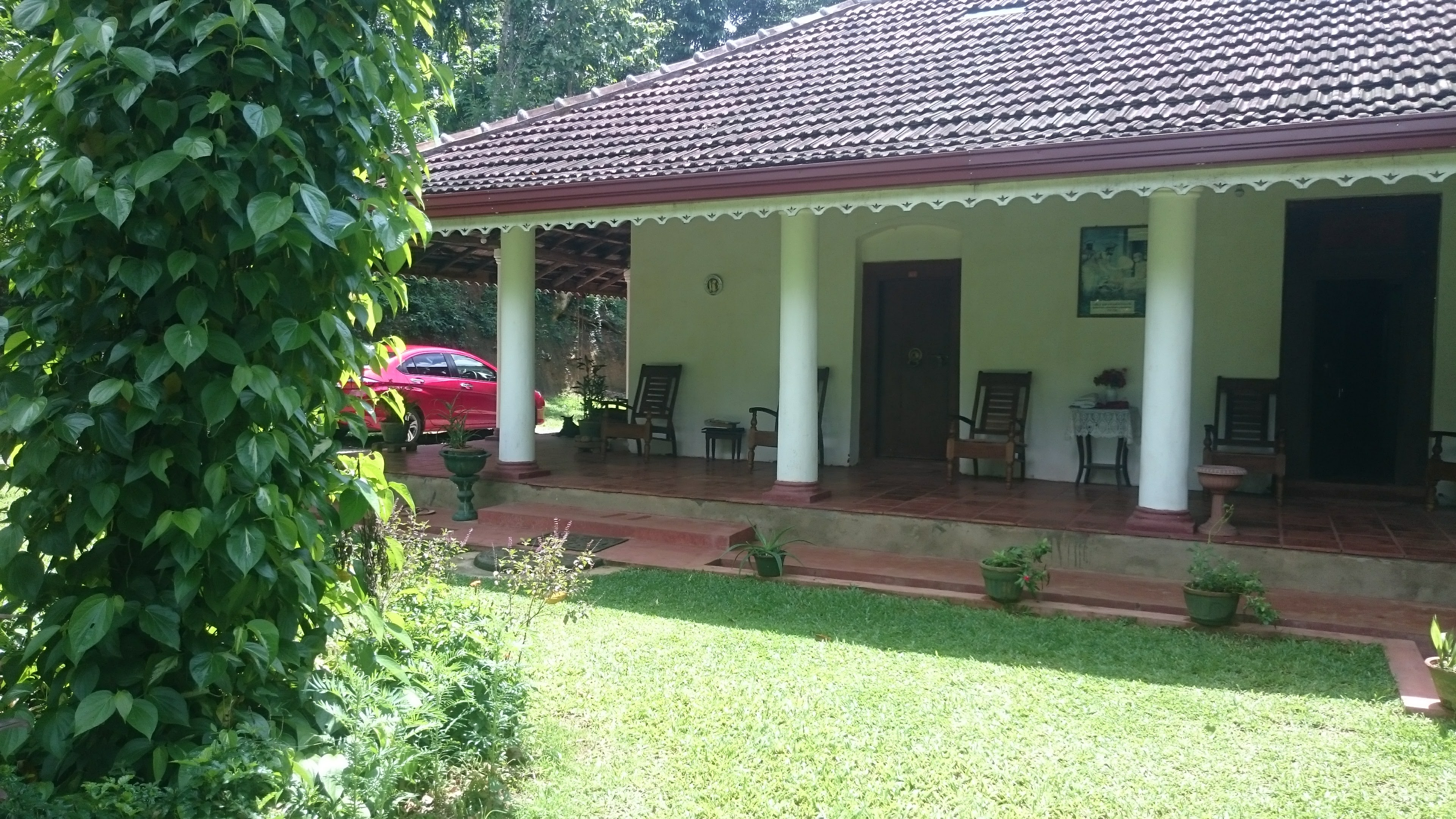 Welivita Sri Saranakara Thera was born on June 19, 1698 to the Kulathunga family of Welivita waththe walauwa in Tumpane